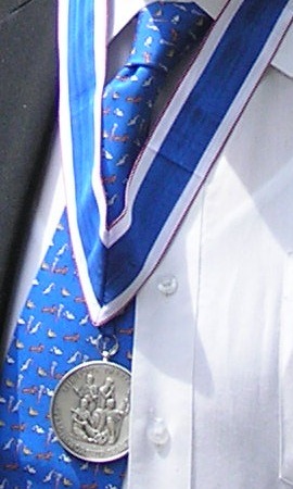 Four Freedoms Award (to be precise, this is the medal for "Freedom From Want")